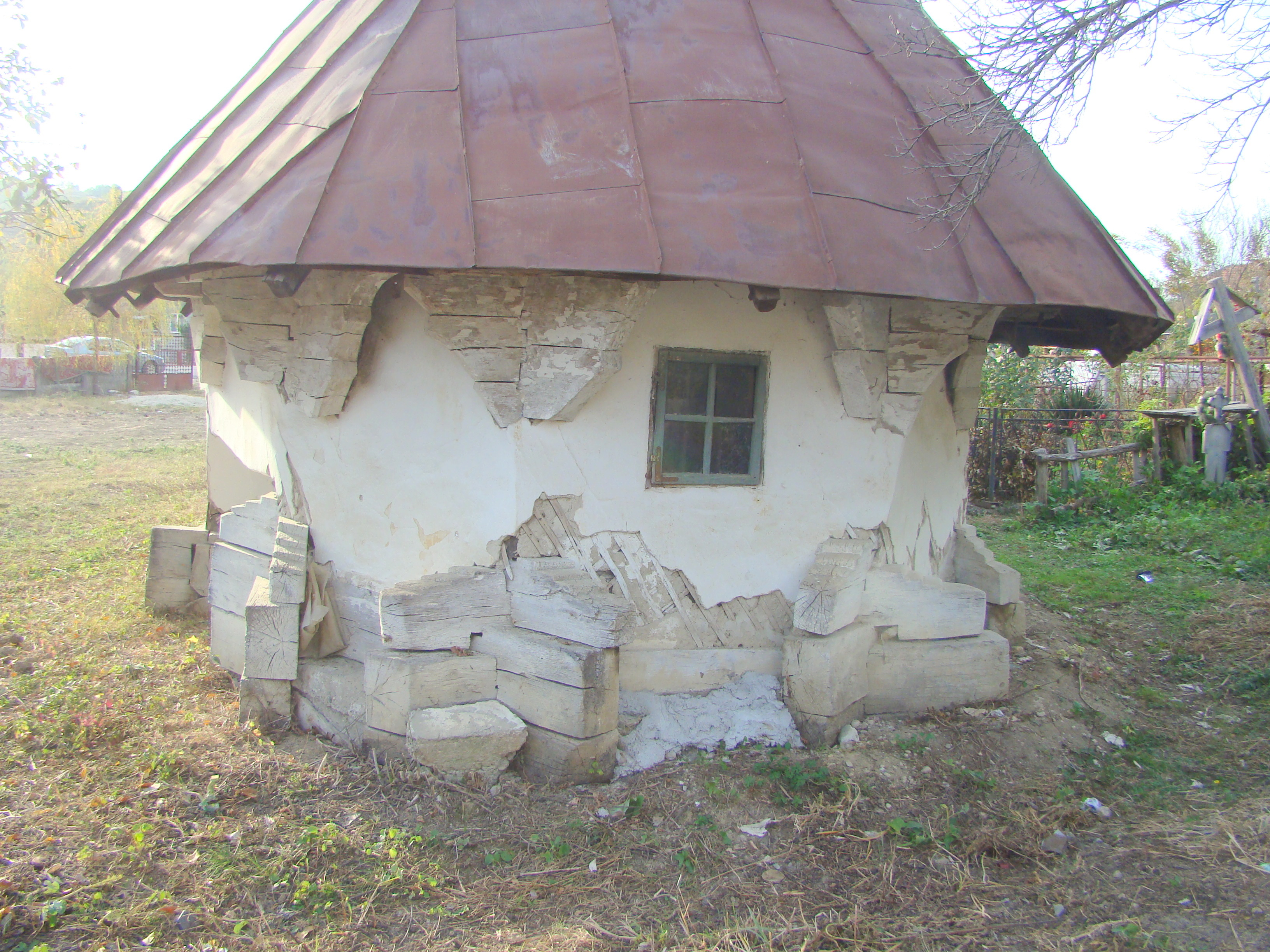 Wooden church in Piscuri, Gorj county, Romania